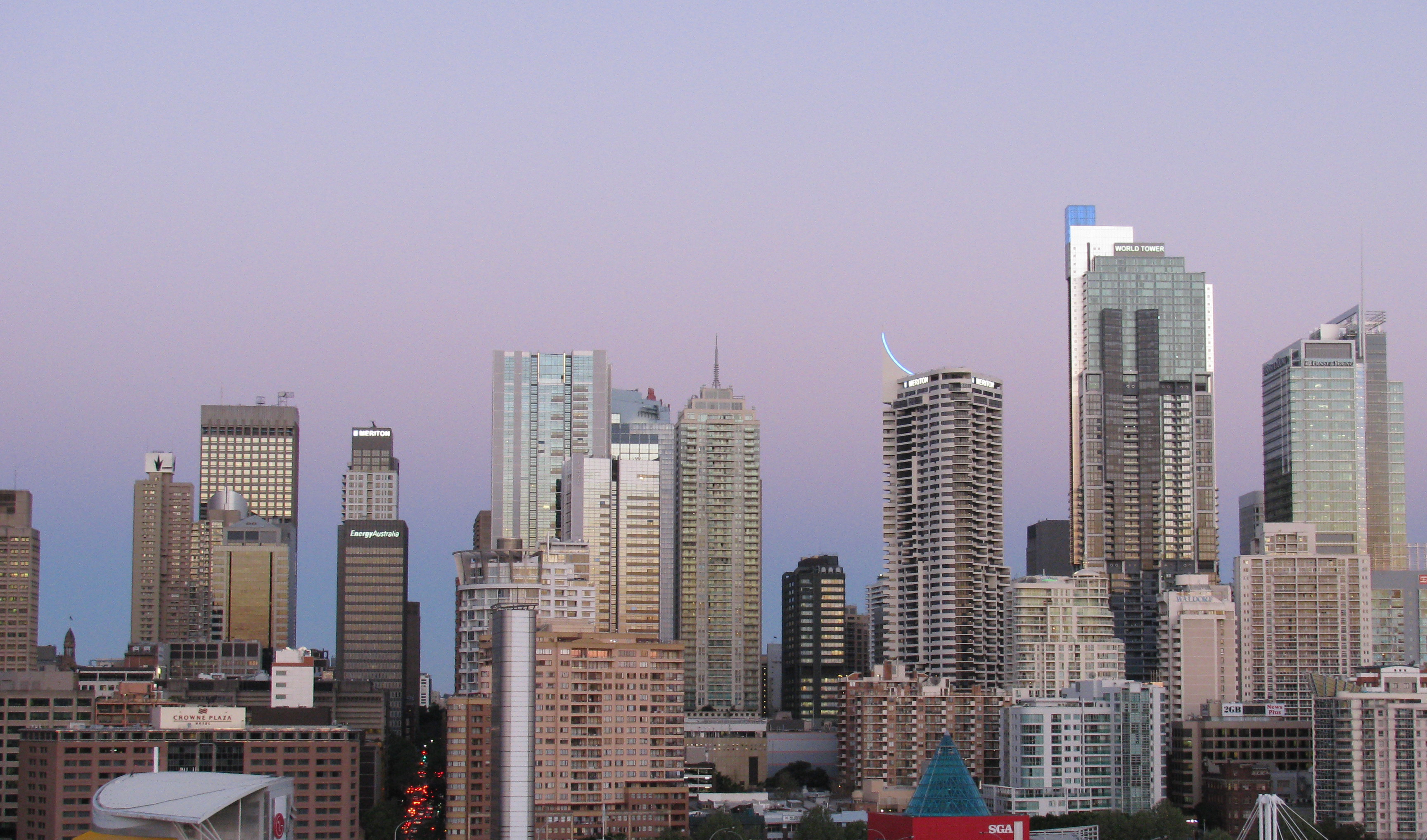 Central Sydney, late afternoon